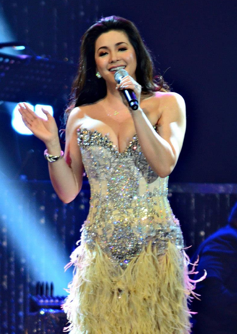 Regine Velasquez performing on her 2013 Silver Rewind Concert